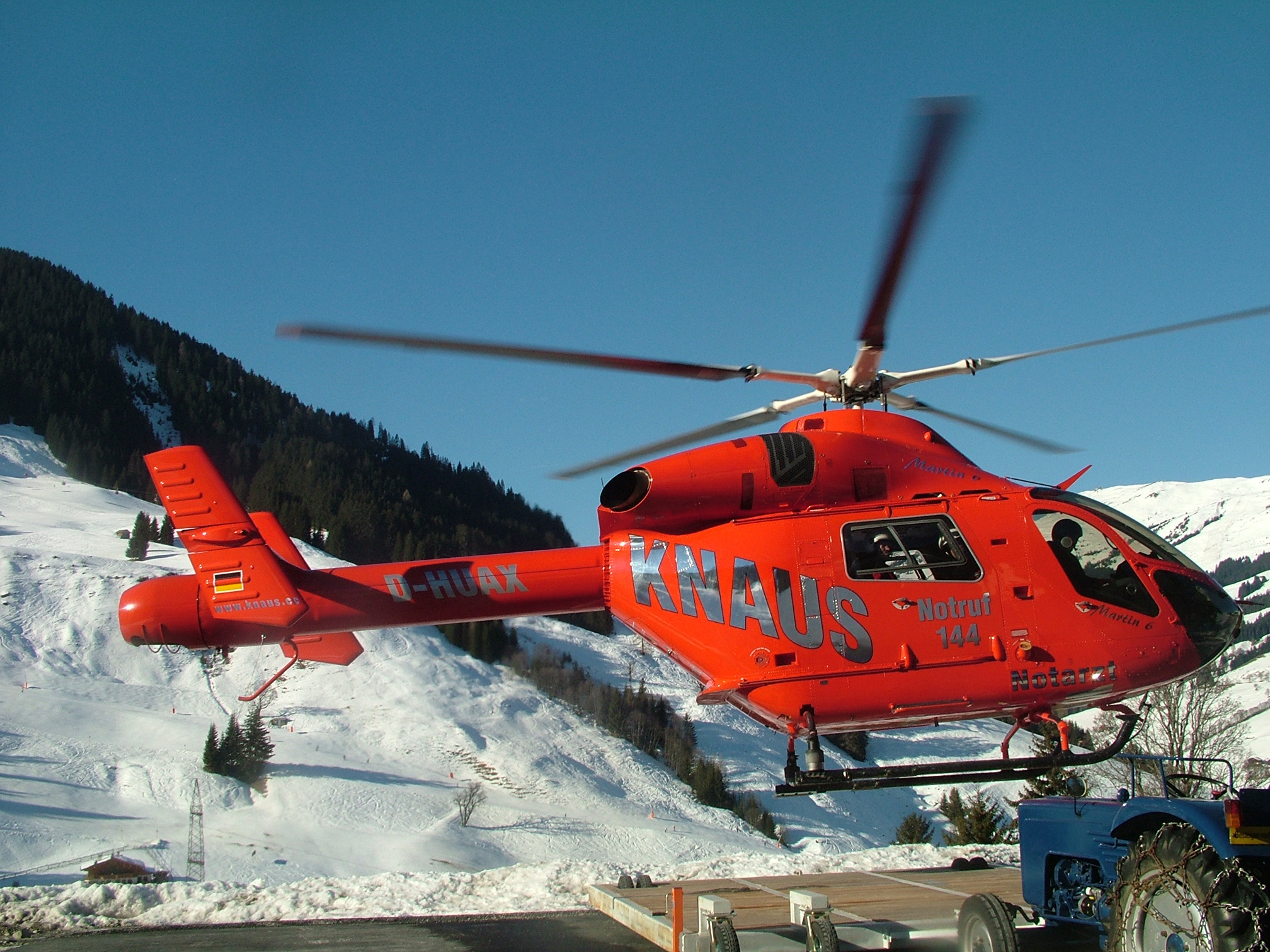 MD 900 red